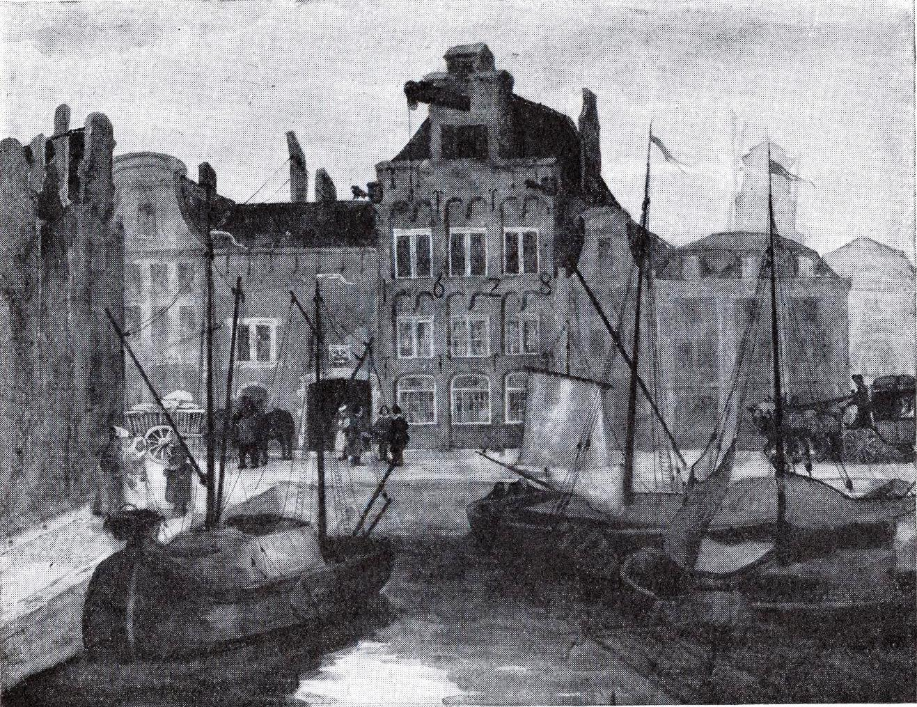 Düsseldorf, Hafenstraße, von Franz Bernhard Custodis, 18. Jhdt.JPG